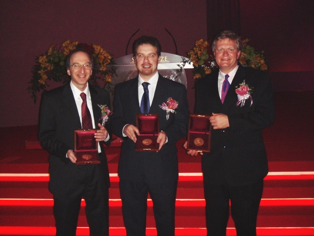 Saul Perlmutter, Adam Riess, and Brian Schmidt receiving the Shaw Prize for Astronomy 2006. Color, lighting corrections from [1] on the English Wikipedia. The Original picture was released into the Public Domain, I likewise release any rights I have from editing it into the Public Domain.